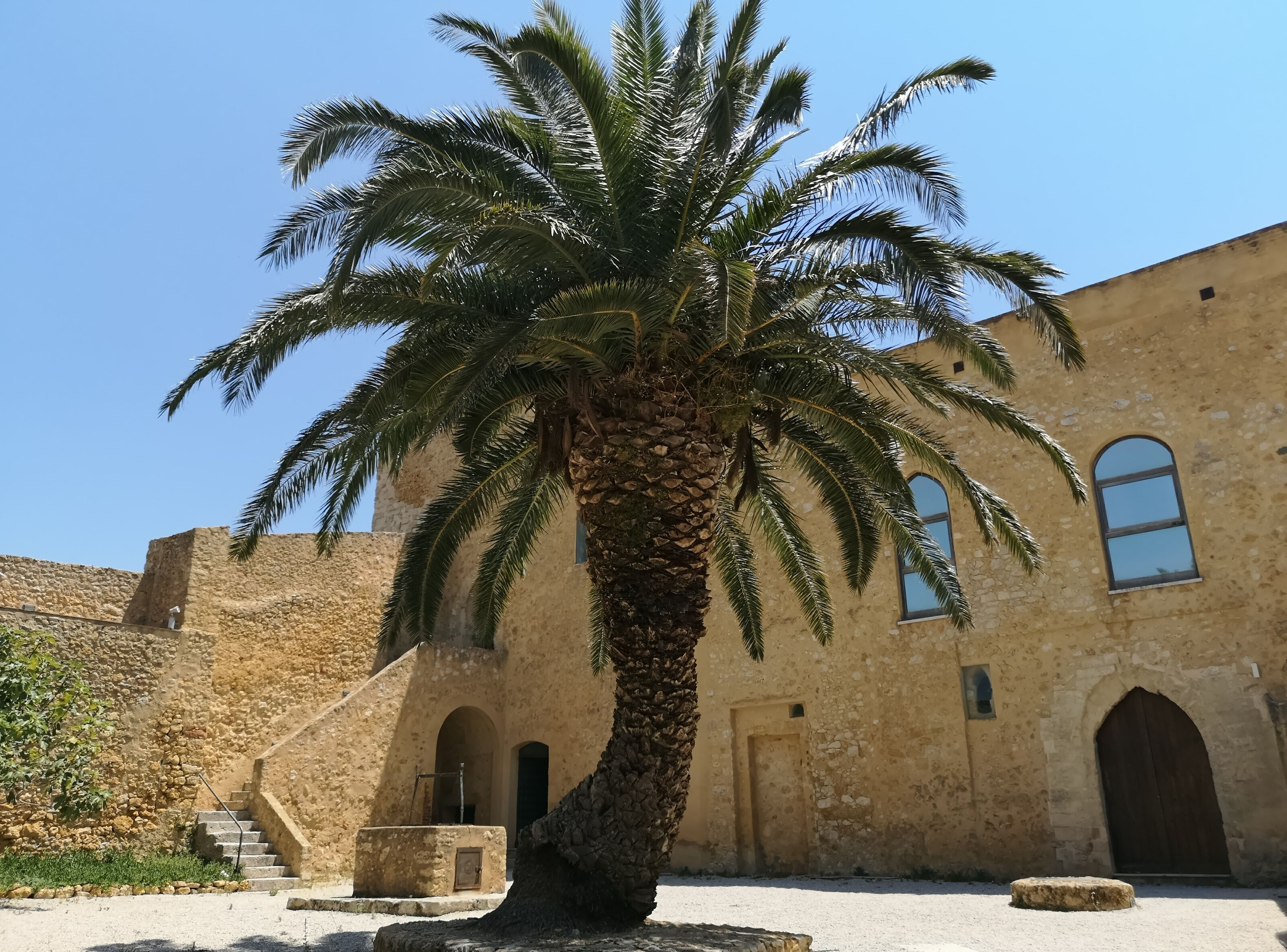 Palm tree in the courtyard of Naro Castle (Sicily).